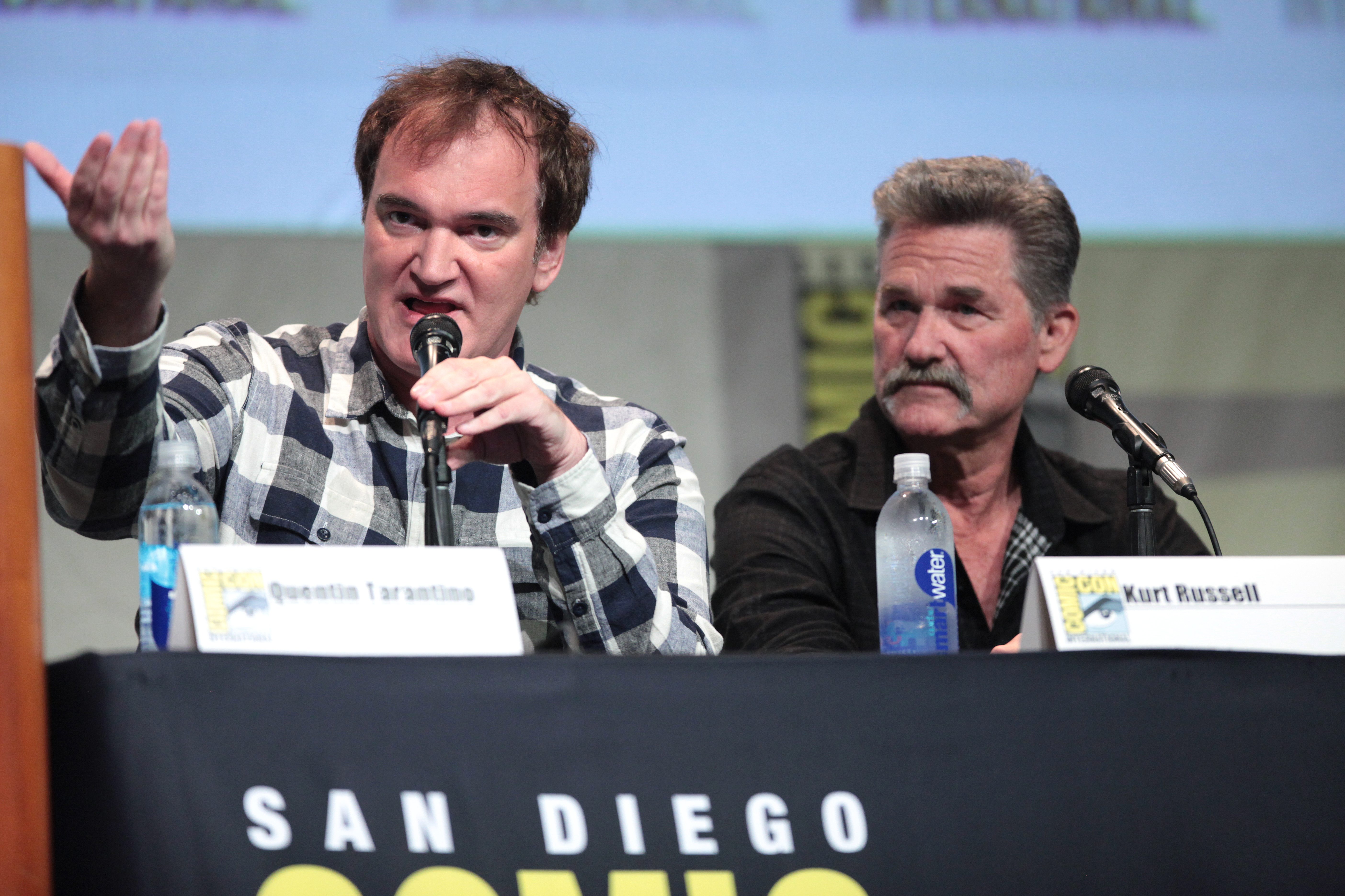 Quentin Tarantino and Kurt Russell speaking at the 2015 San Diego Comic Con International, for "The Hateful Eight", at the San Diego Convention Center in San Diego, California.